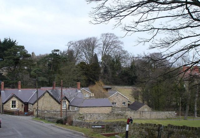 Llanasa village. The picture postcard village of Llanasa